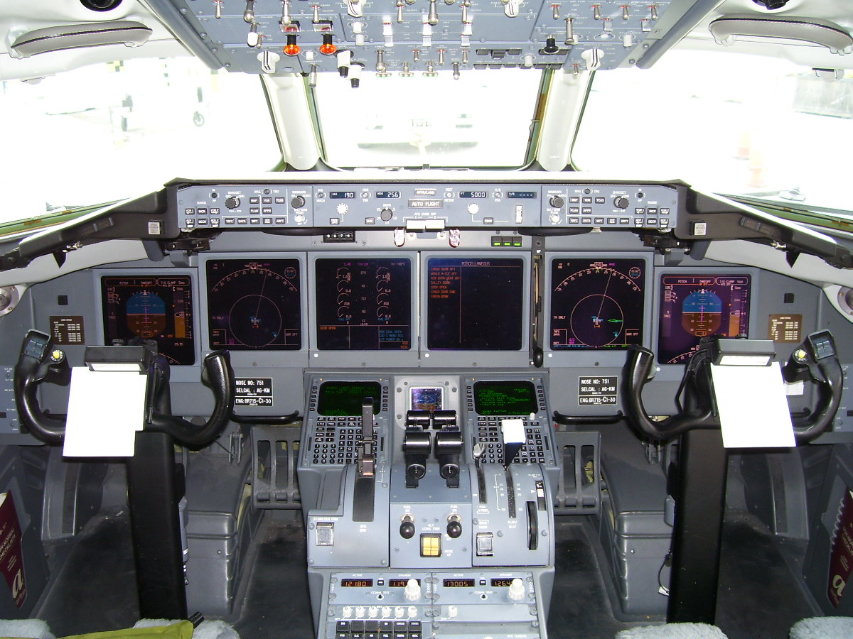 Flight deck of a Boeing 717 aircraft